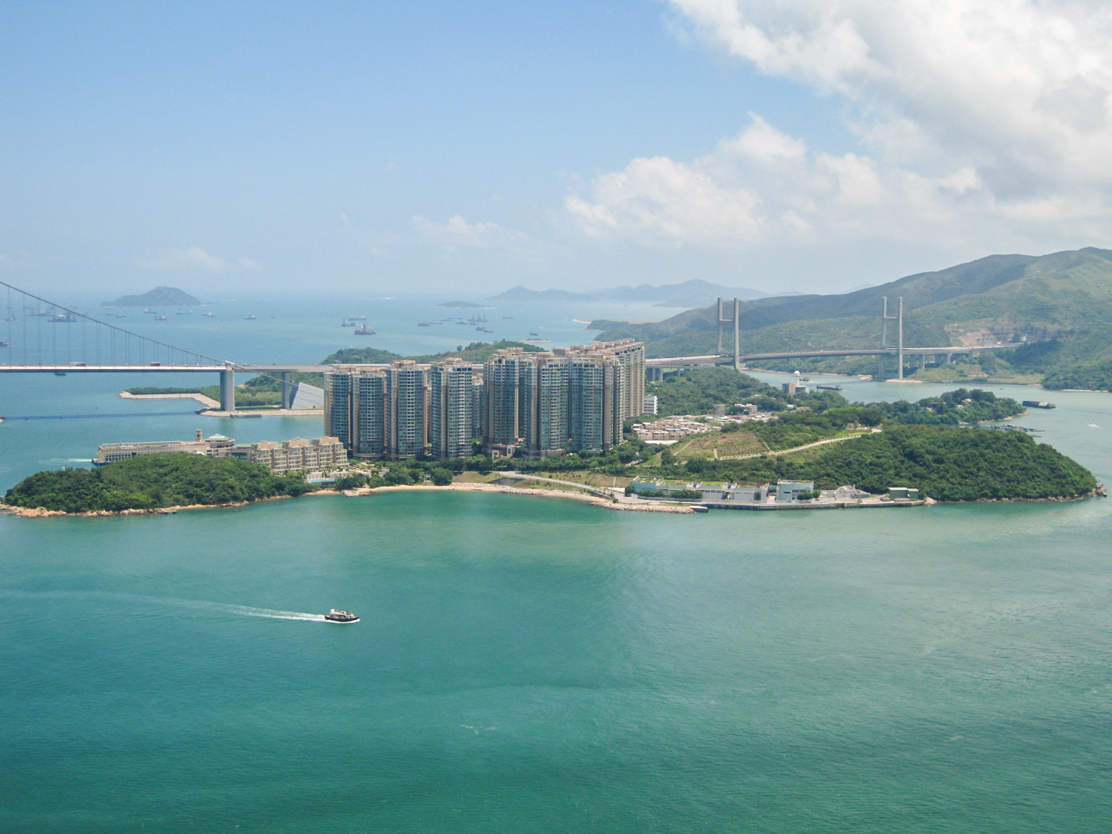 Ma Wan overview, taken from Bellagio